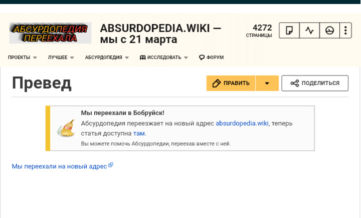 Scrinshot of old dead Absurdopedia on Wikia